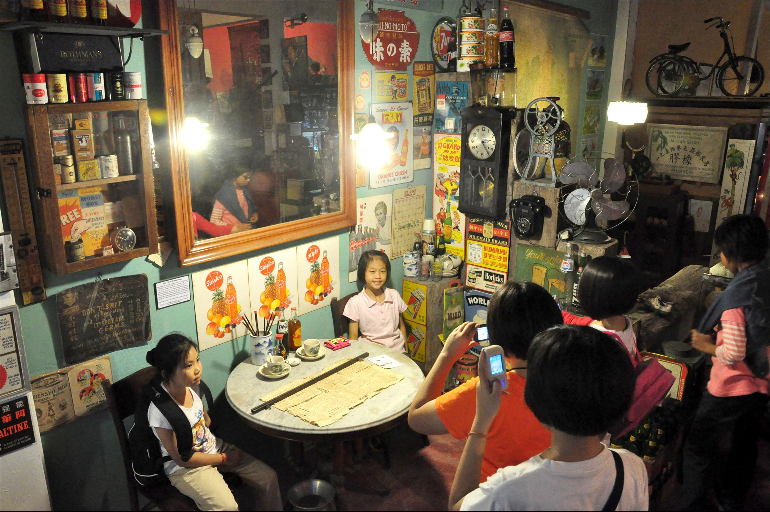 The TIME TUNNEL museum is located within the Kok Lim Strawberry Farm, UT/MR/F-255, Jalan Sungei Burung, 39100, Brinchang, the Cameron Highlands, Pahang, West Malaysia.